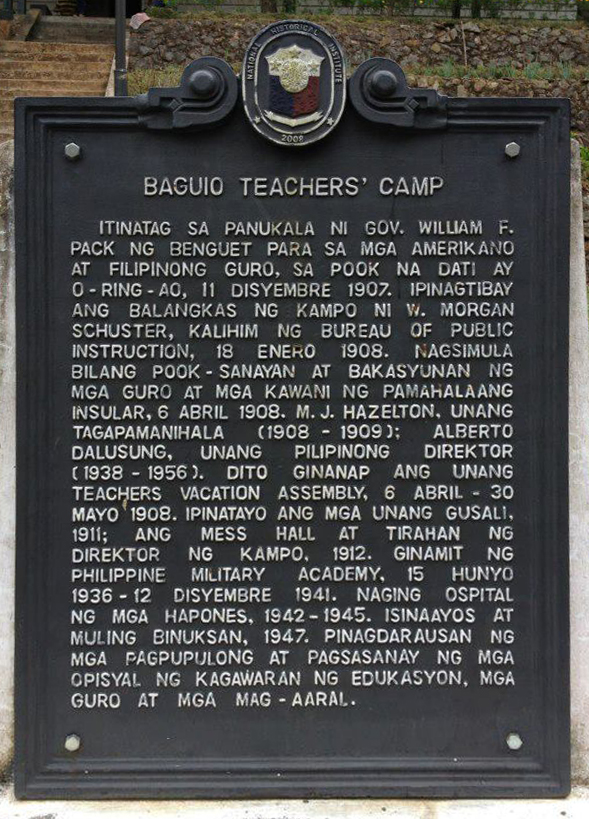 Baguio Teachers Camp historical marker